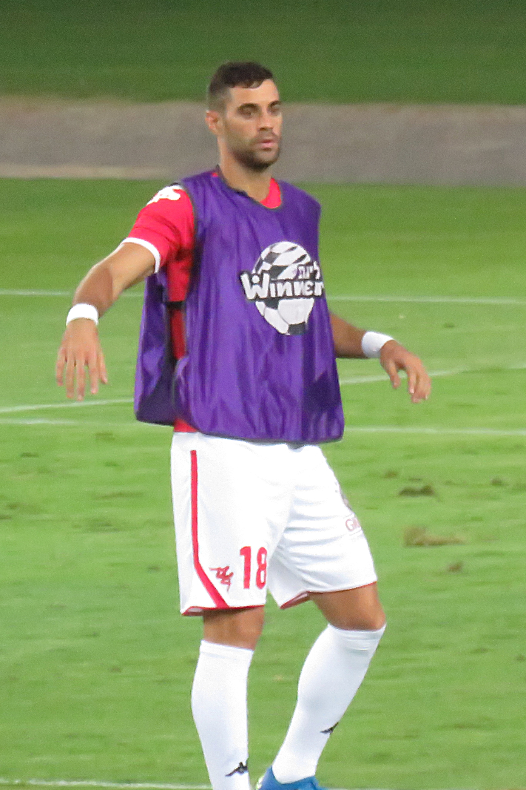 Hapoel Ra'anana vs. Hapoel Be'er Sheva - September 12, 2015